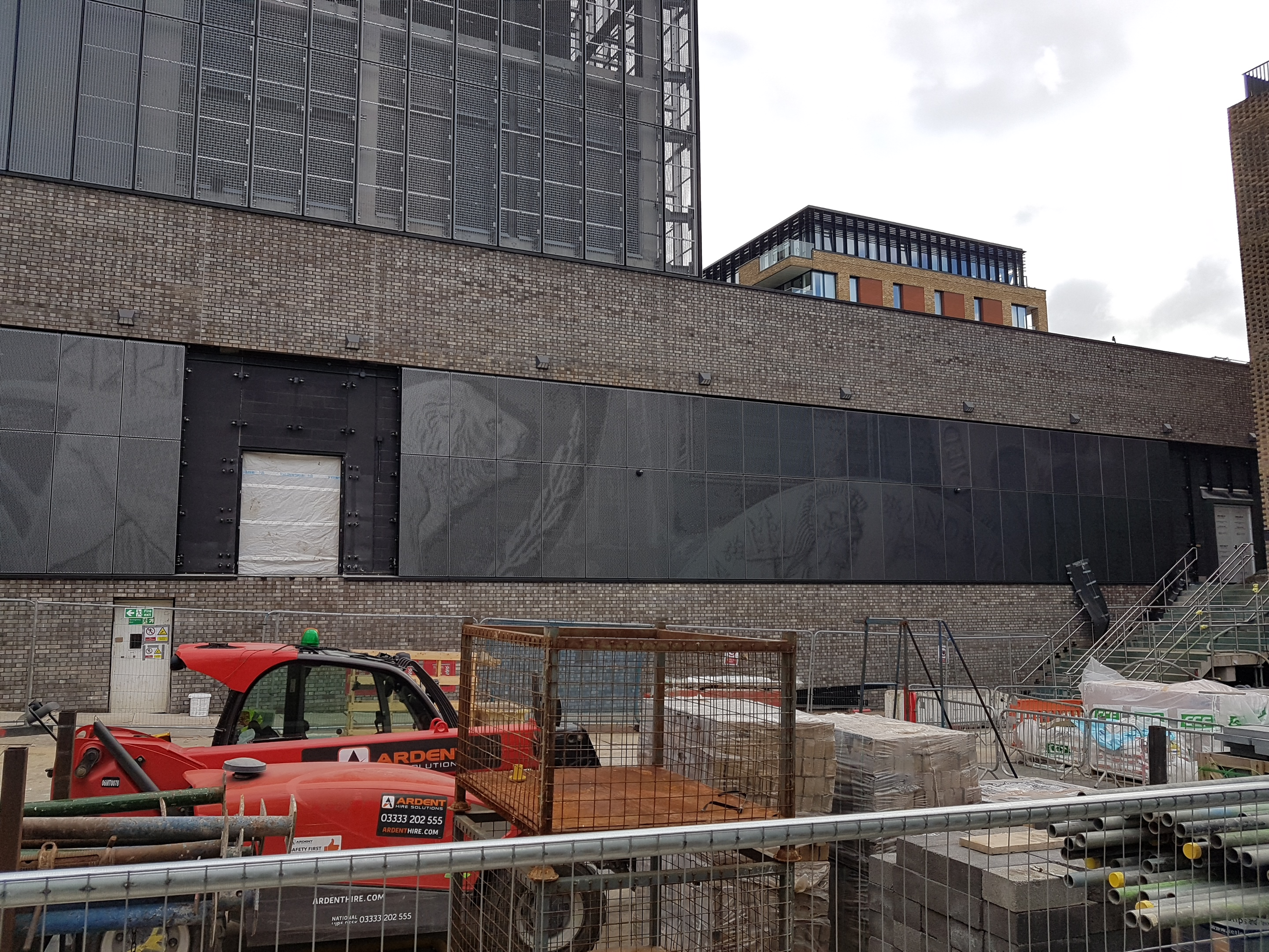 View of the new square on the north side of the Elizabeth Line station in Woolwich Royal Arsenal, South-east London, UK. The design of the wall decoration is based on the WWI Memorial Plaque which was produced by the thousands in Woolwich.